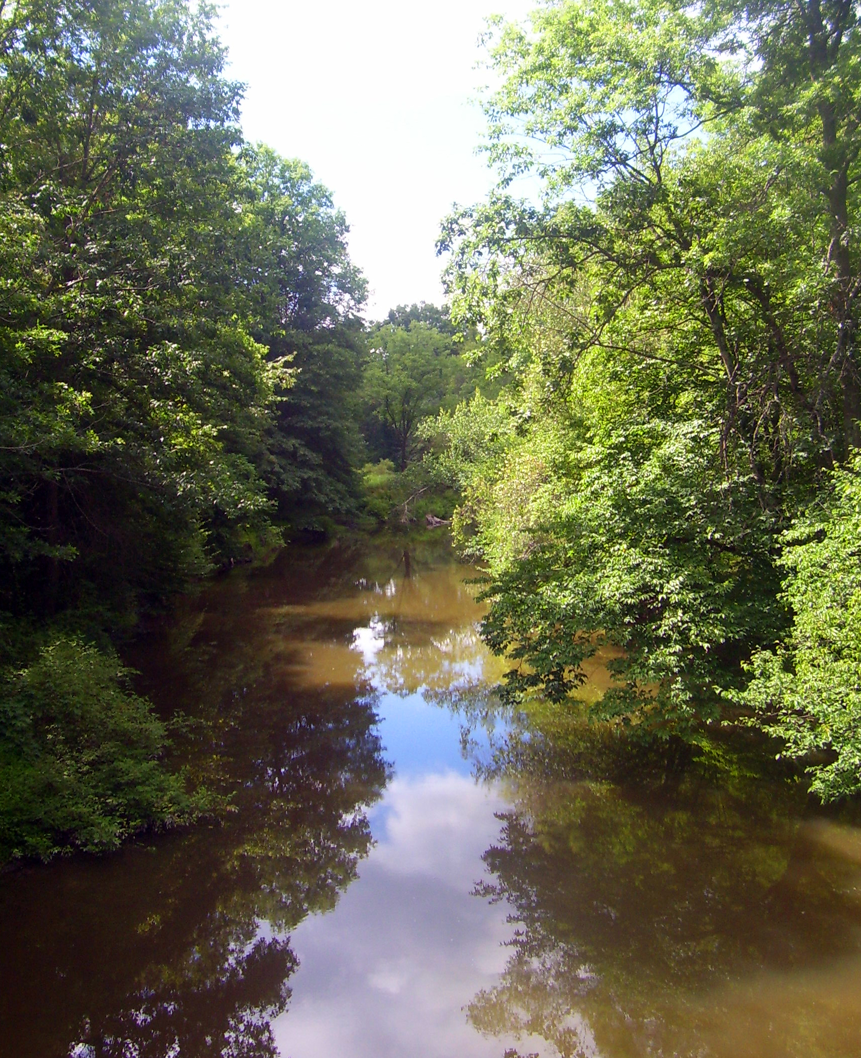 Dwaar Kill viewed from Bruyn Turnpike (County Route 18) bridge in the Town of Shwangunk